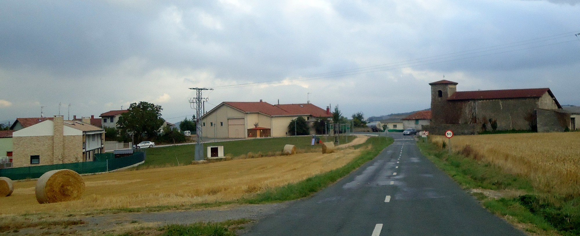 Miñaogutxia village (Vitoria-Gasteiz, Araba, Basque Country)